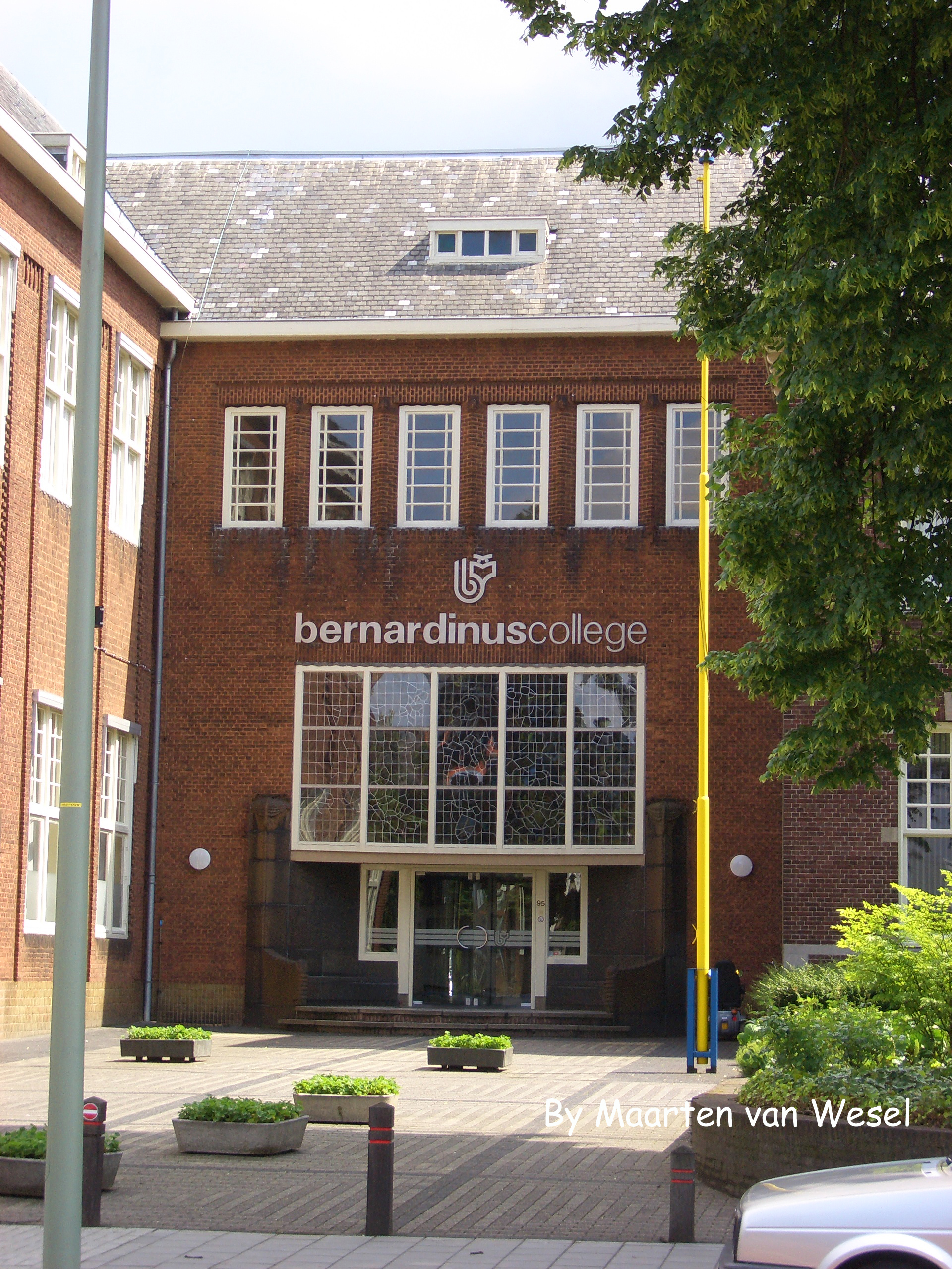 This picture of the Bernardinuscollege was made by me, Maarten van Wesel, in Heerlen This picture of the Bernardinuscollege was made by me, Maarten van Wesel, in Heerlen